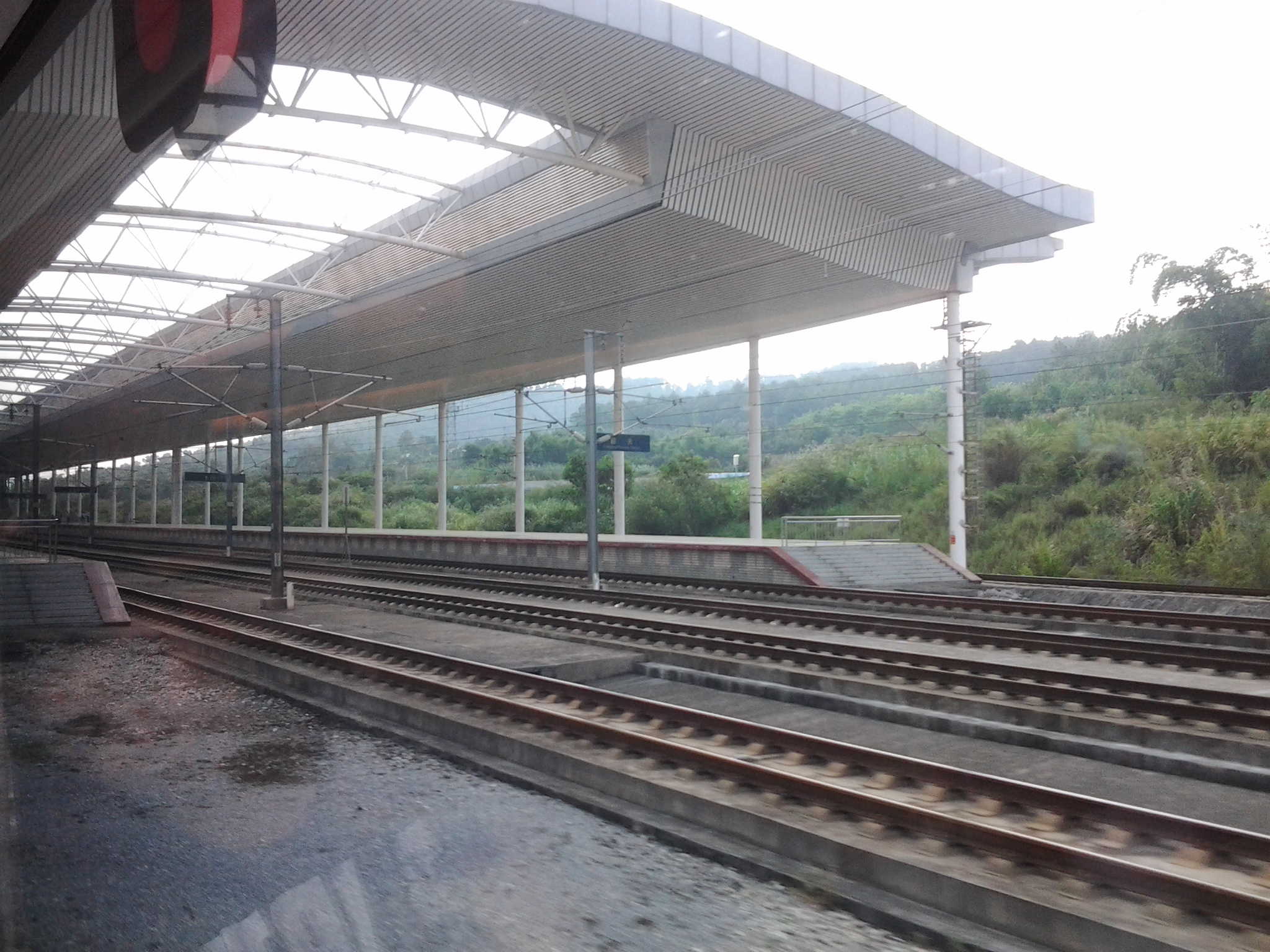 Shaoguan Railway Station